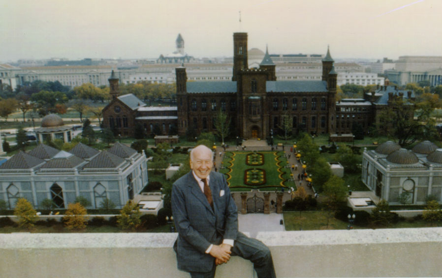 1987. Smithsonian Secretary S. Dillon Ripley sitting on roof of building across from South Yard. Aerial view of Quadrangle shows Smithsonian Institution Building (SIB) or Castle, Enid A. Haupt Garden, National Museum of African Art (NMAfA) and Arthur M. Sackler Gallery (AMSG). The National Mall and National Museum of Natural History can be seen behind the Castle in the distance.